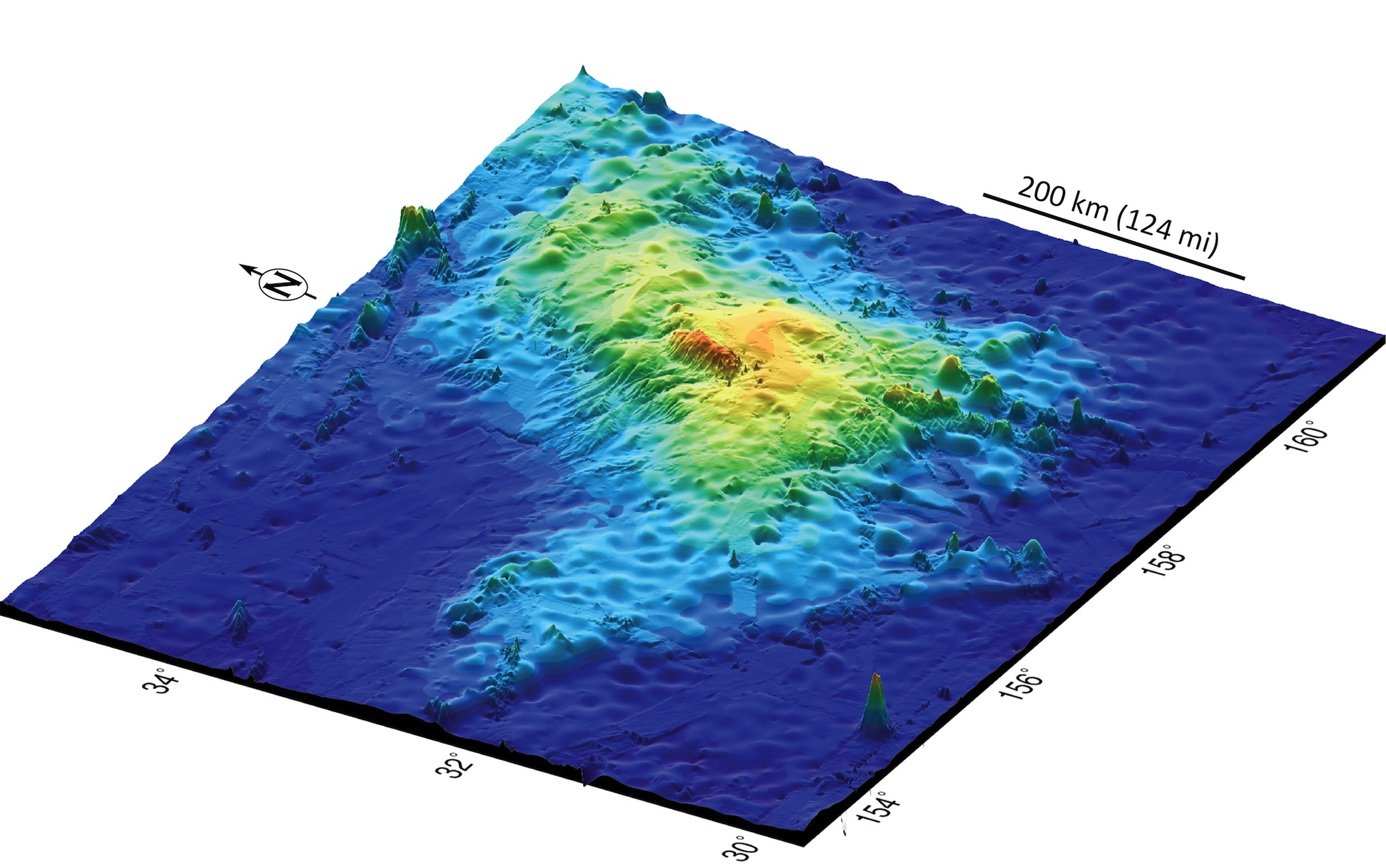 A 3D map of Tamu Massif, the largest known volcano on Earth. It is around 4 miles high from its base, and about 1,000 miles east of Japan. Tamu Massif is around 120,000 square miles across, which is approximately the size of New Mexico. The volcano even rivals Olympus Mons in size. The 3D map was generated by the IODP